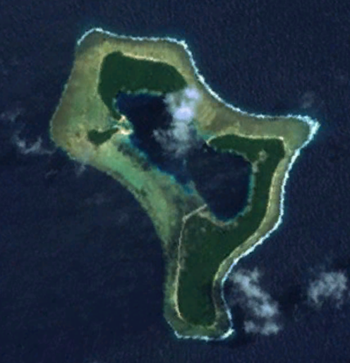 A satellite photo of the atoll of Pingelap, Federated States of Micronesia